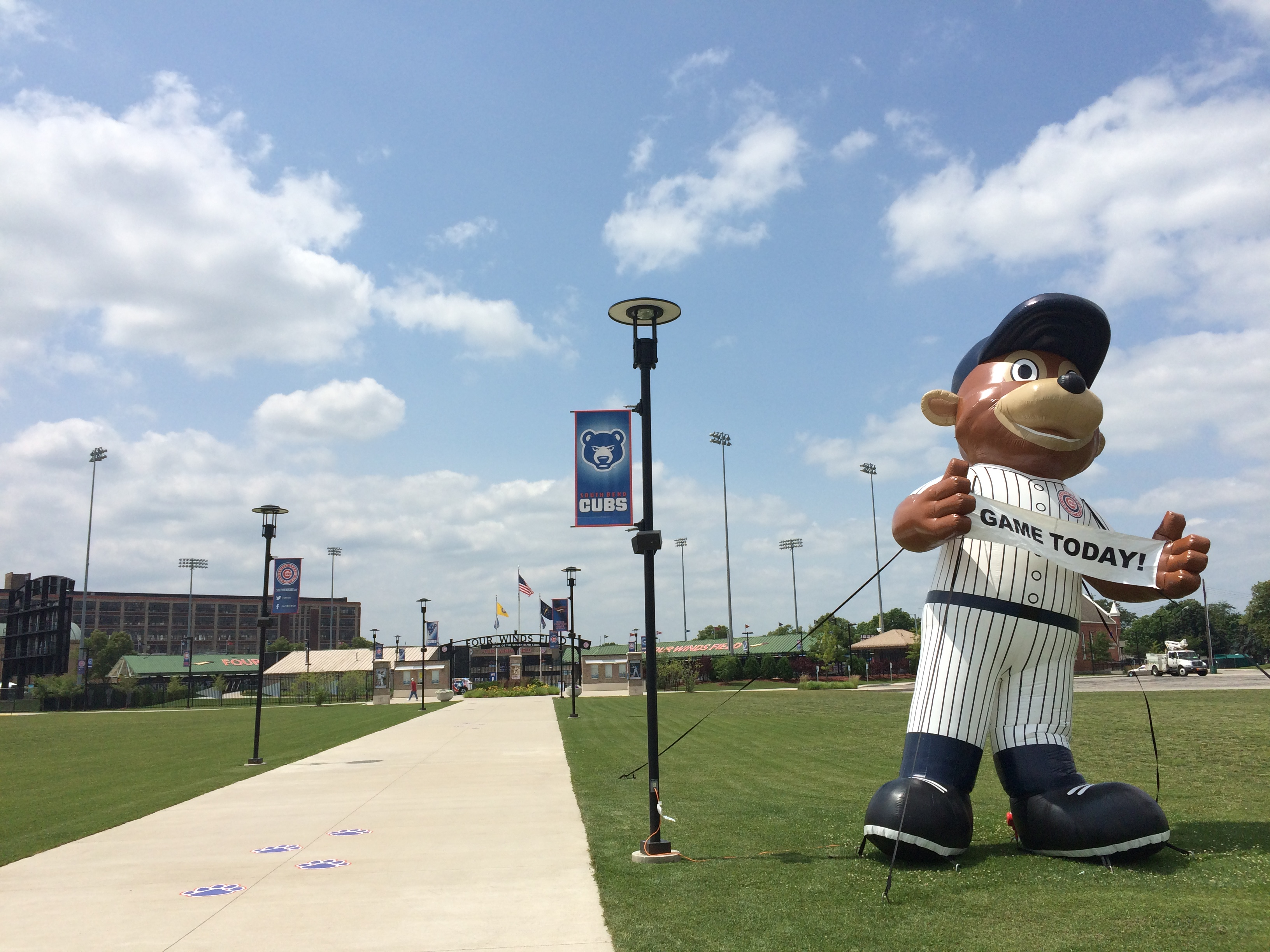 Walkway leading to Four Winds Field at Coveleski Stadium, home of the South Bend Cubs, in South Bend, Indiana. Photo taken on 2 July 2015.